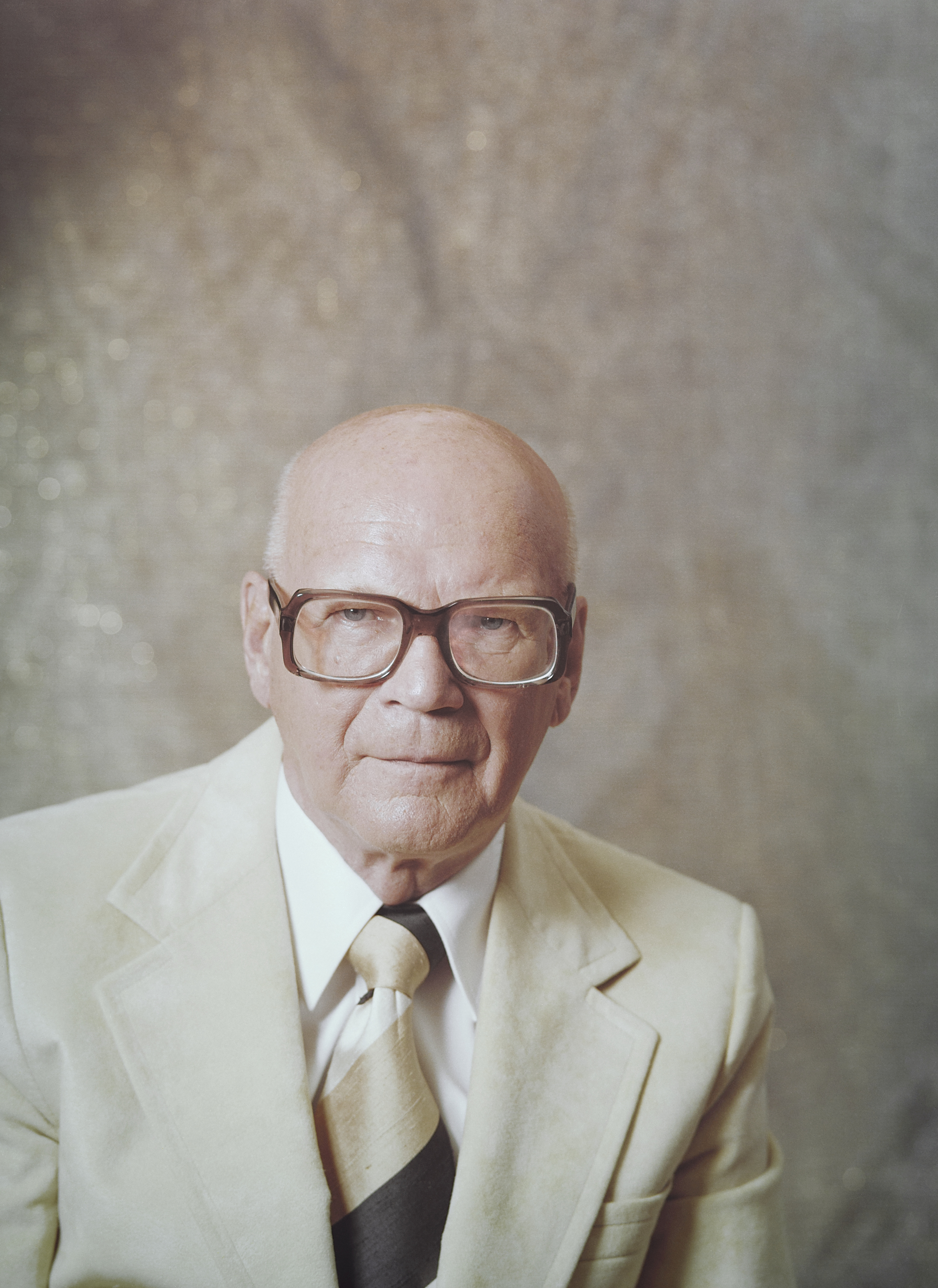 Photograph of the President of Finland, Urho Kekkonen (1900–1986).